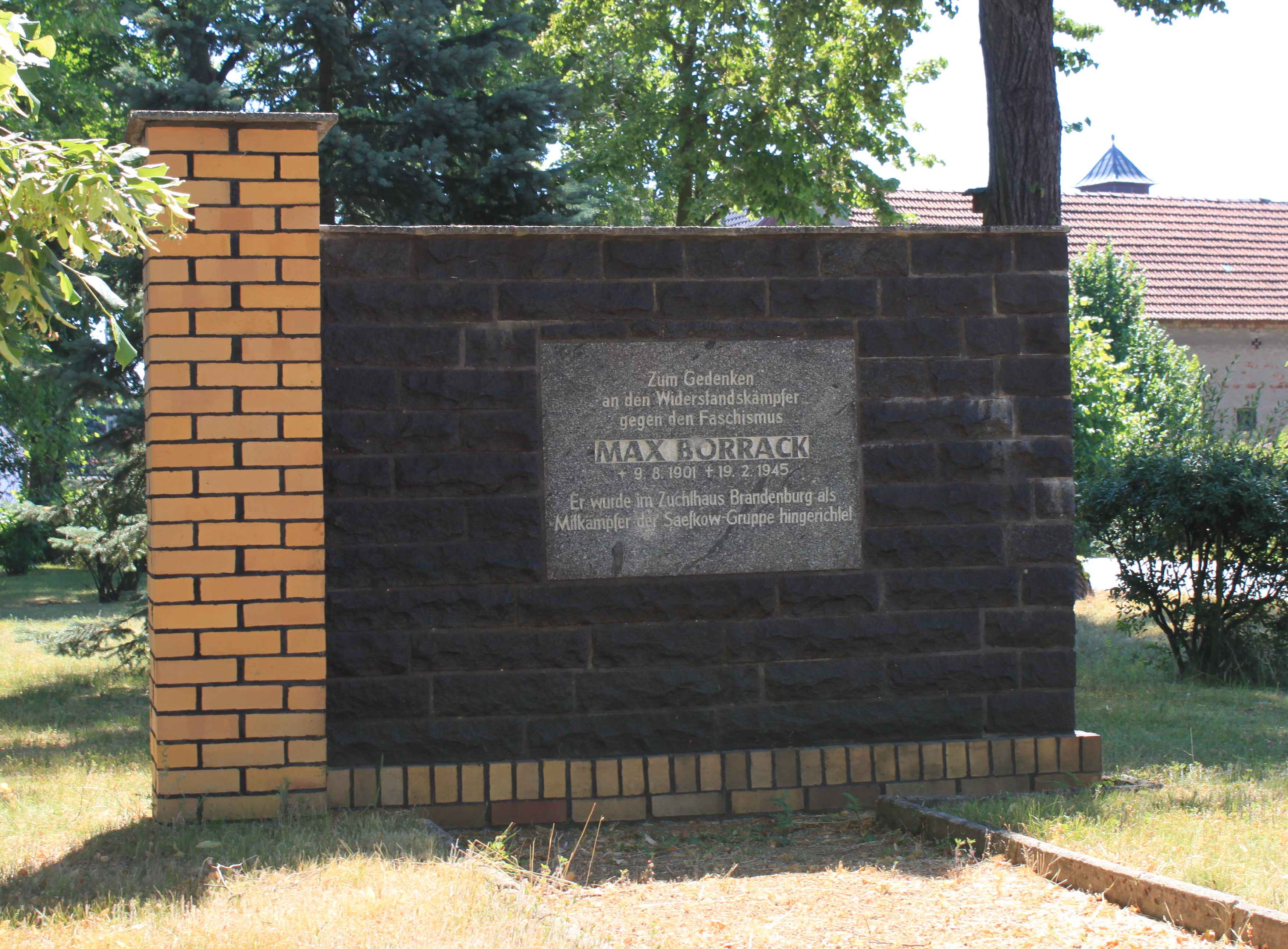 Memorial of Max Borrack in Domsdorf